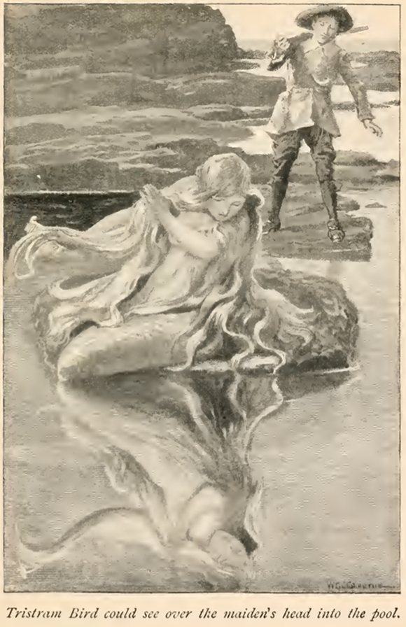 Illustration of Tristam Bird and the Mermaid of Padstow, before he shot her. Her dying curse was to form the Doom Bar. Taken from North Cornwall fairies and legends, first published in UK 1906.